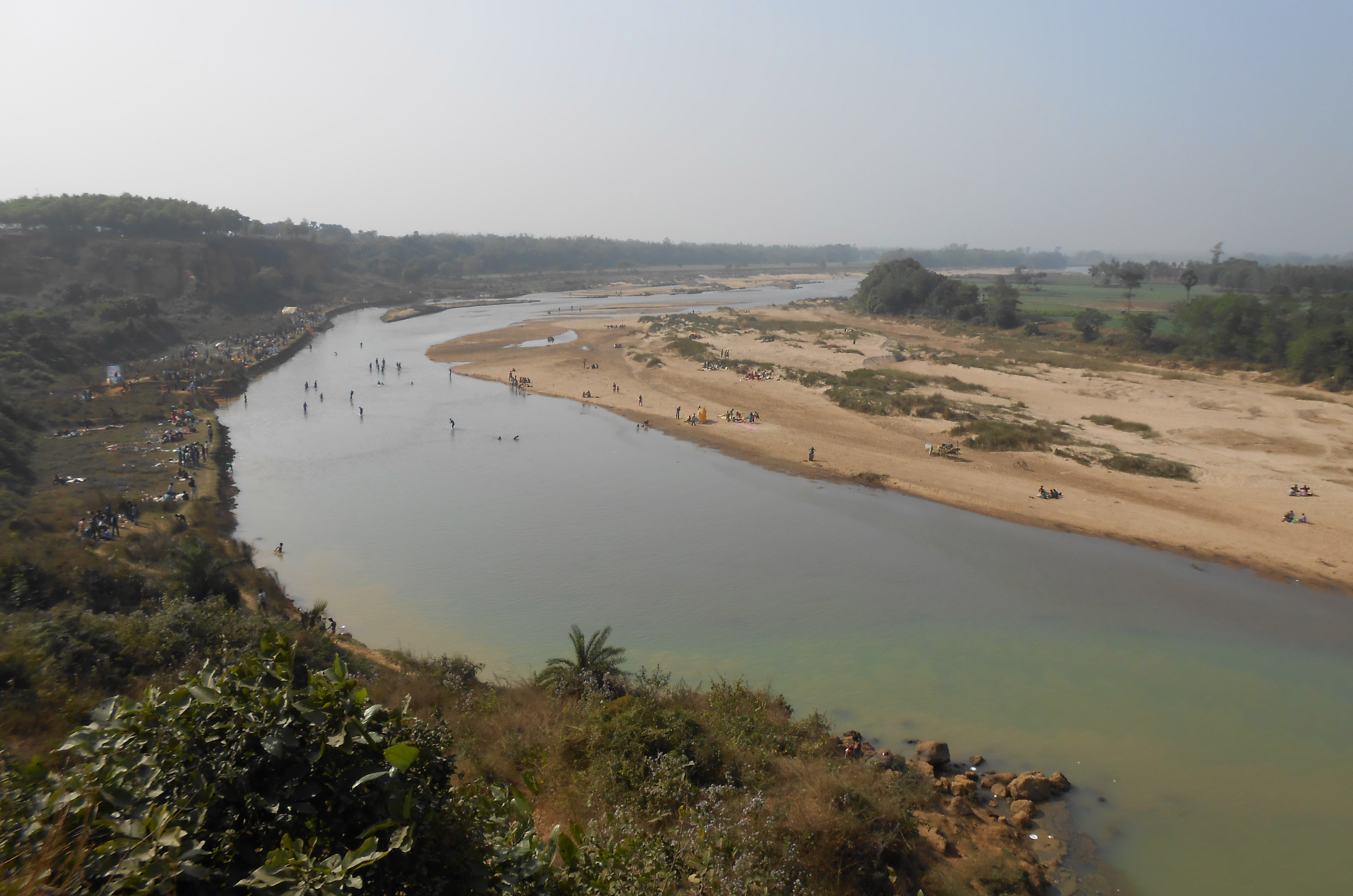 View of the Shilabati river at Gangani during New Year's Eve. Gangani is a popular tourist spot and picnic-cum-camping site.